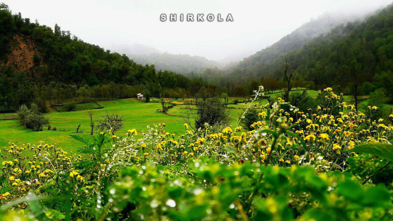 منظره ای بی نظیر از روستای شیرکلا